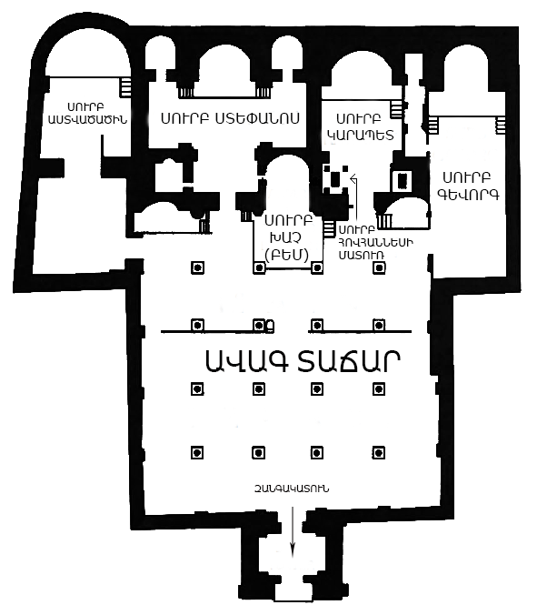 Translated version of Floor plan of the Surb Karapet Monastery. My own work based on the plan that from: Hewsen, Robert (2001). "Mush and Its Plain". Armenia: A Historical Atlas. University of Chicago Press. p. 206.